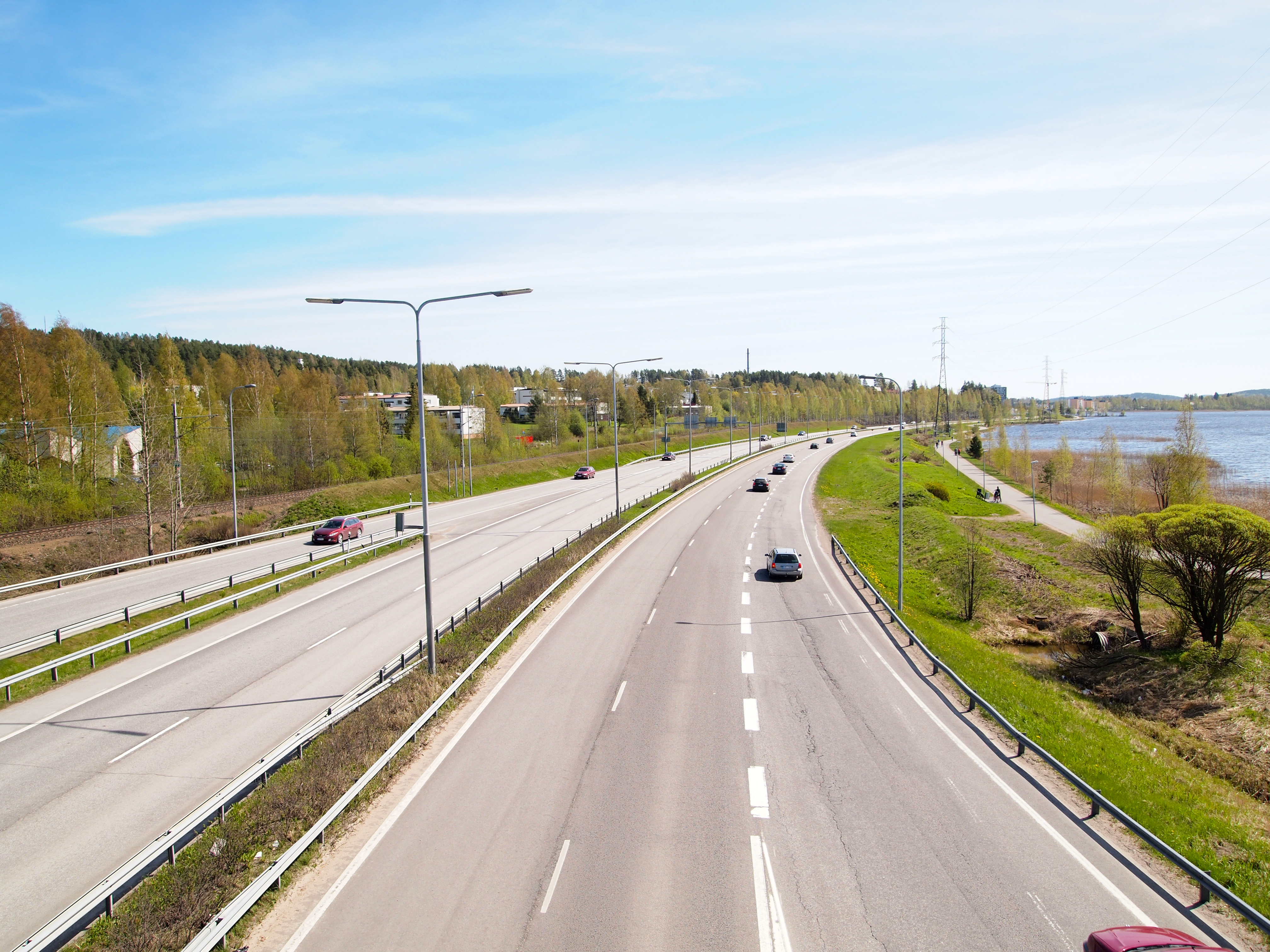 View to the road Vaajakosken Moottoritie in Jyväskylä. This photograph was taken with an Olympus E-PL1